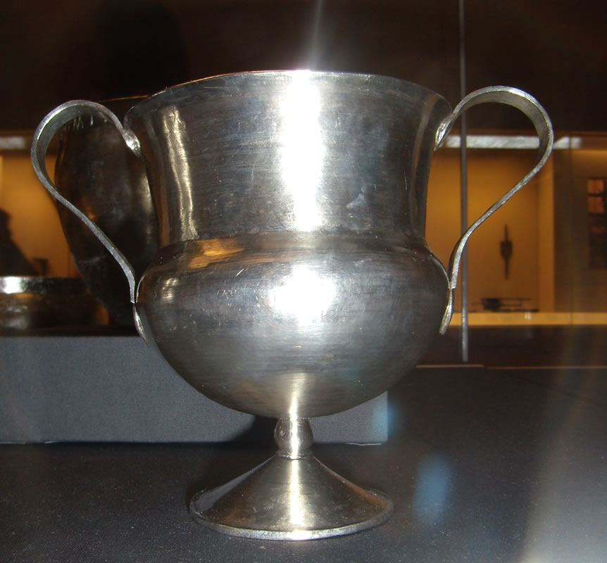 Silver vessel from the Water Newton treasure